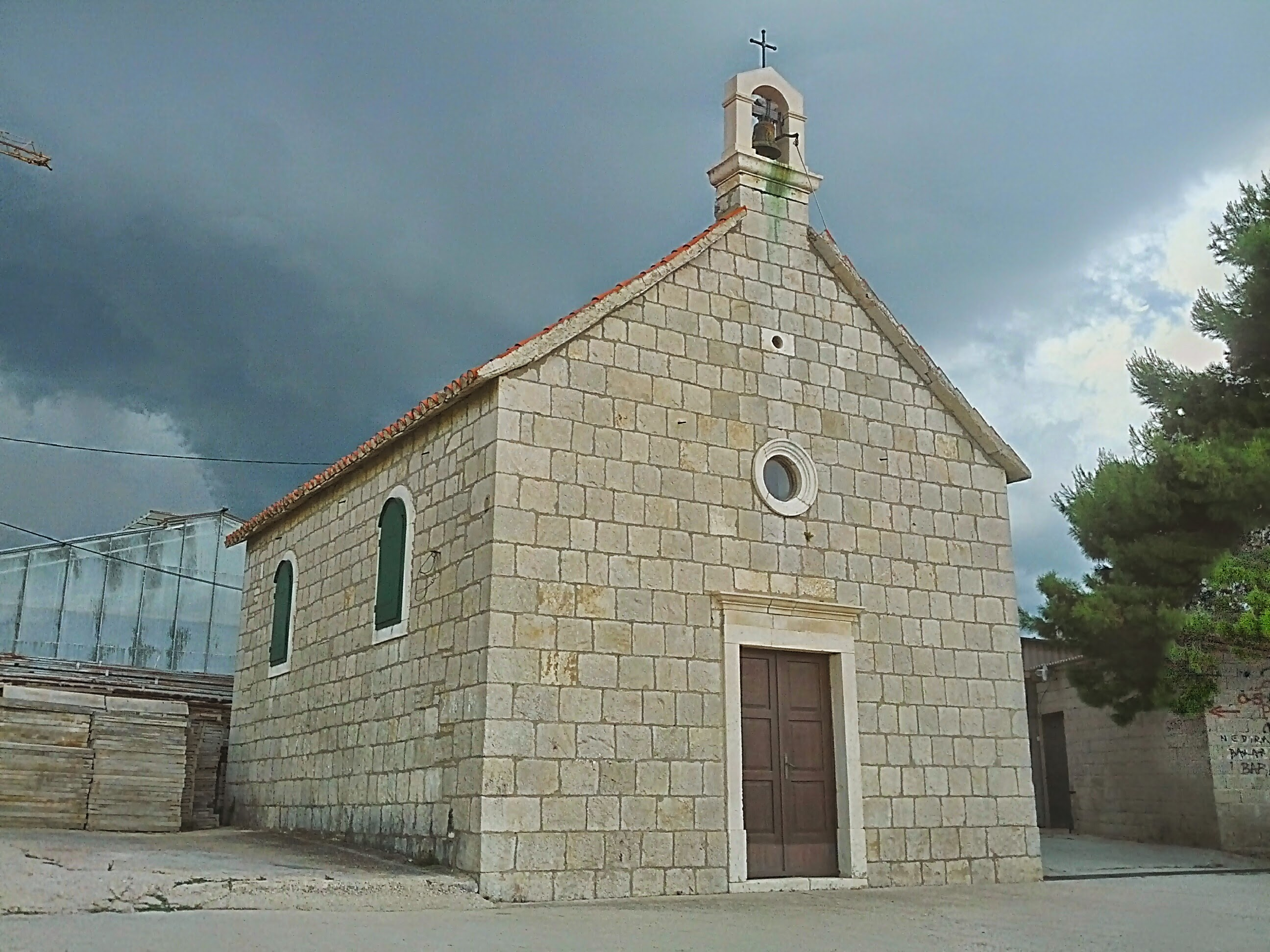 Unnamed church in Žnjan, Split, Croatia